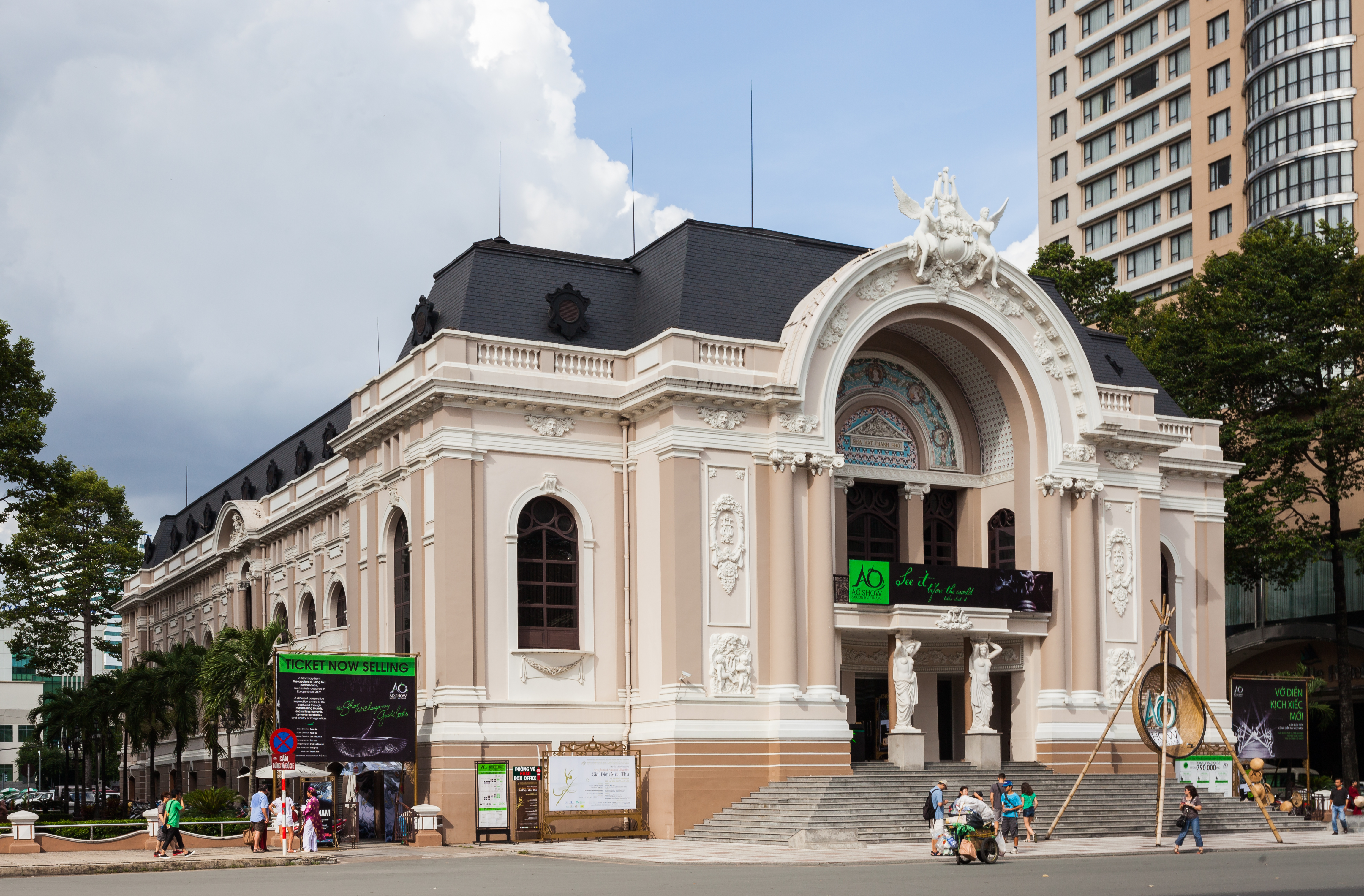 Opera house, Ho Chi Minh City, Vietnam